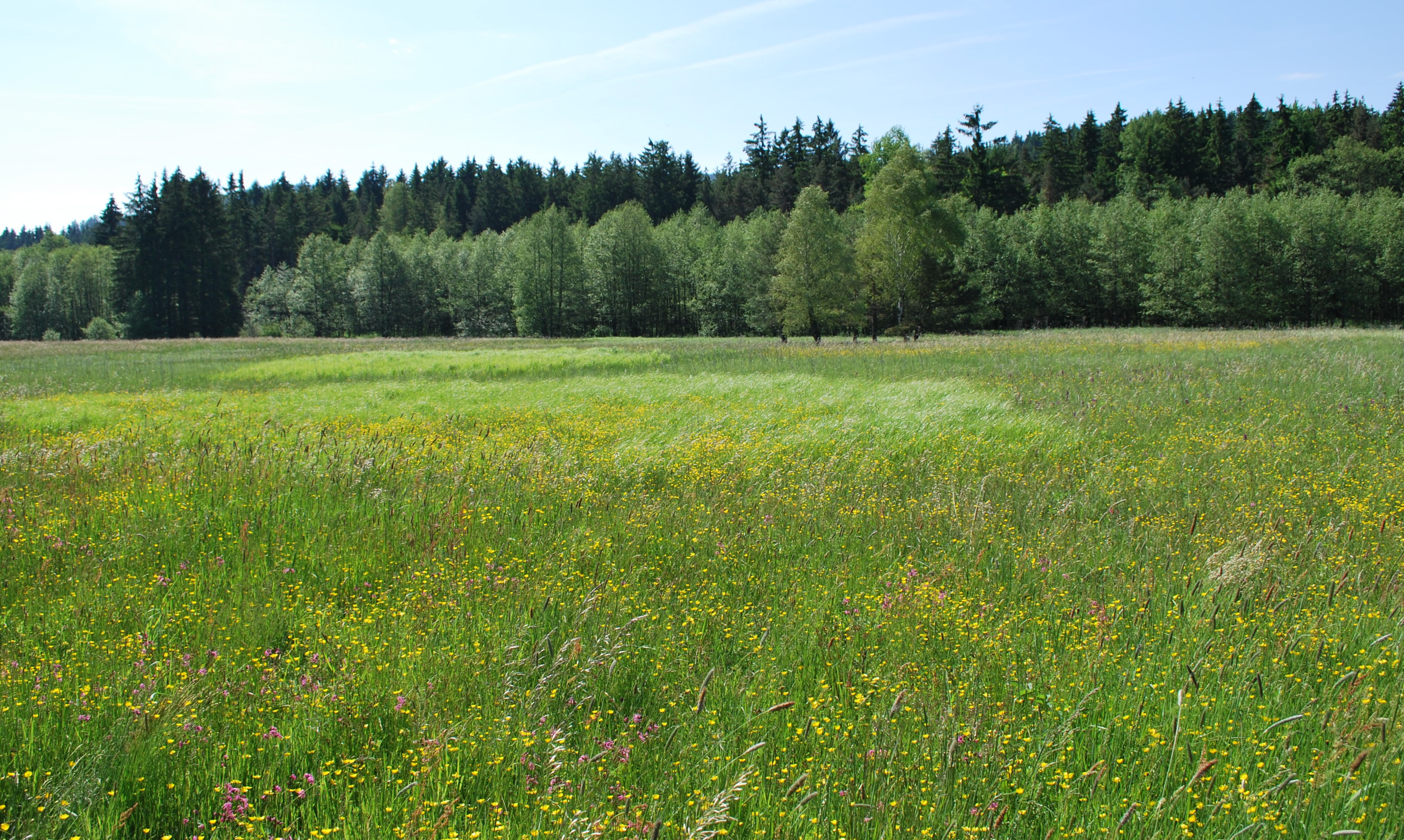 Nature reservation "Na Volešku", near village Soběšice in Klatovy District, Czech republic. This photograph was taken within the scope of the 'Czech Municipalities Photographs' grant.